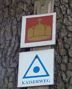 Signage on the Kaiserweg long distance path in central Germany